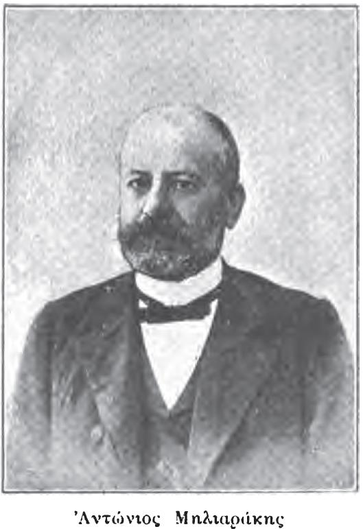 Hestia (1876) Author: Diomedes, Paulos Subject: Greek literature, Modern; Greek periodicals Publisher: [Athēnēsi : s.n. Year: 1894 Possible copyright status: NOT_IN_COPYRIGHT Language: Greek Digitizing sponsor: Google Book from the collections of: Harvard University Collection: americana]